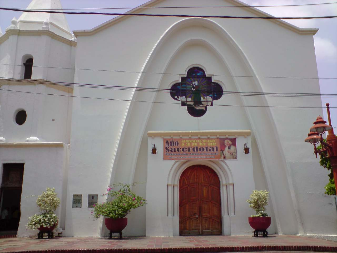 Cathedral Catedral Nuestra Señora del Rosario of Valledupar